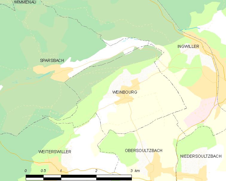 Map of French municipality